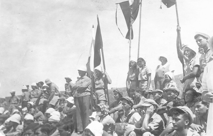 Moshe Carmi